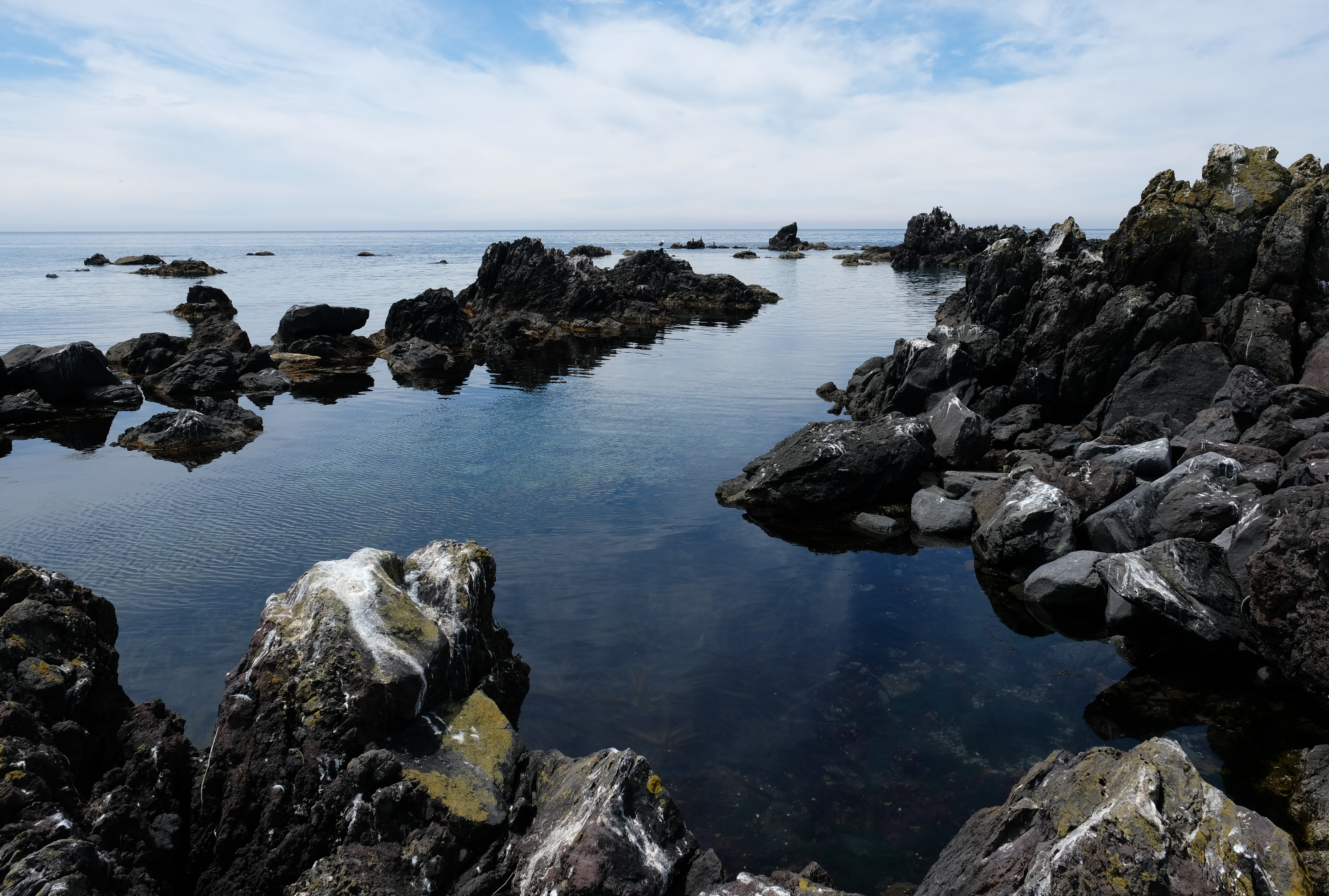 Rishiri Island is a volcanic island in the Sea of Japan off the northwestern tip of Hokkaido. Rishiri volcano started erupting less than 200,000 years ago, building a stratovolcano and lava domes. Eruptions from the summit vents ceased about 37,000 years ago and since then, the only activity has been sporadic eruptions from flank vents, forming scoria cones and maars along a 15-km-long NW-SE rift zone extending to the SE coast. These flank eruptions last occurred about 8,500 years ago and were dominantly basaltic, but occasionally included more silica-rich magma including rhyolite. Large lava flows form most of the northern and western coast. When the lava flowed into the ocean, it cooled and formed unusual rock formations which can be viewed at Senhoshi-Misaki Park on the south coast where they protect many tide pools. The white stains on the rocks are sea gull excrement as the area is home to colonies of black-tailed gulls seen perching in the distance.